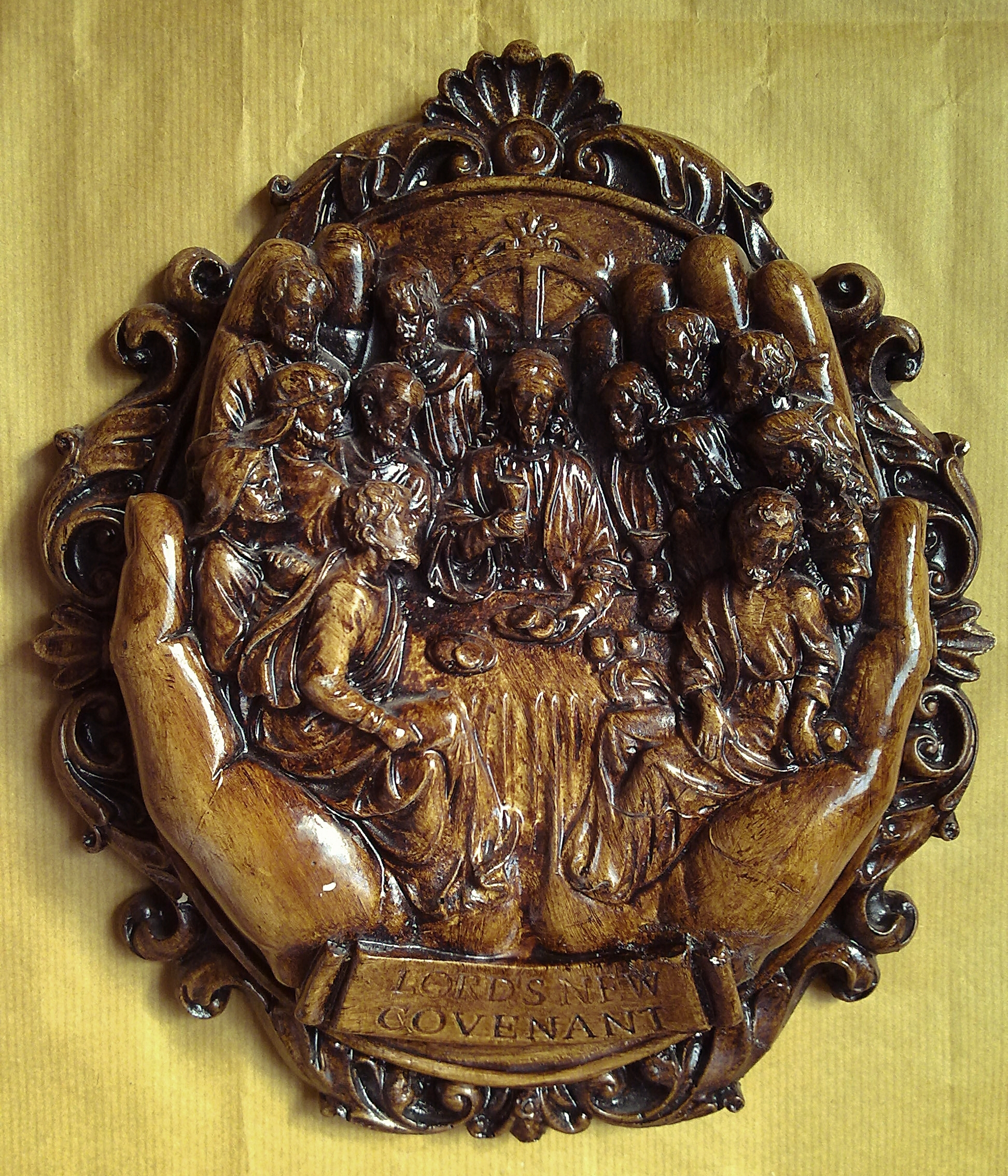 small relief of Jesus and his apostles made by plaster. The background paper is a sewing paper. I bought it for 1$ in Qazvin, IRAN at 2015